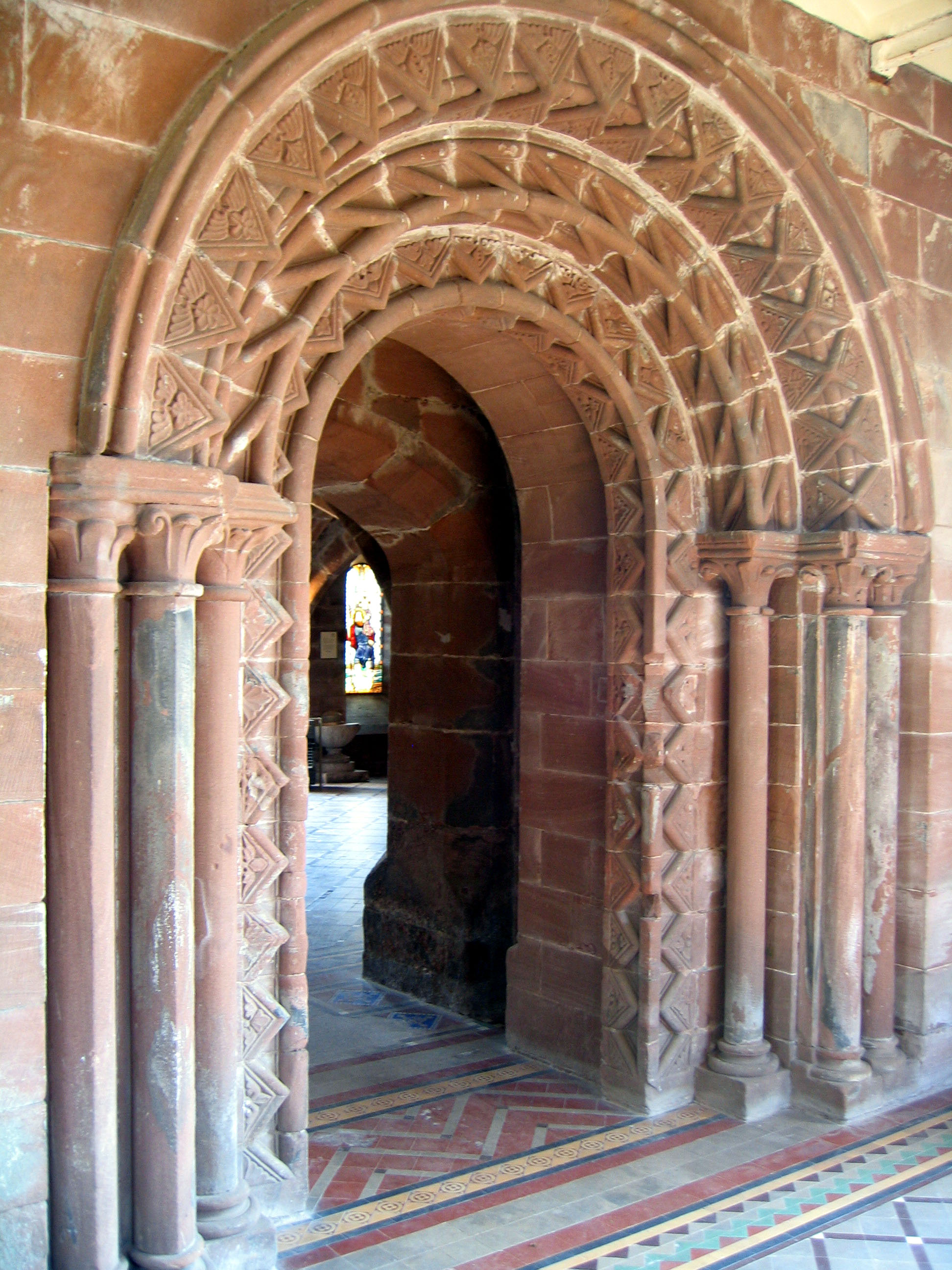 Photograph taken by me on 1 April 2007. A sandstone Norman arch, formerly in the abbey of Norton Priory, near Runcorn, Cheshire, England. It was then incorporated into the fabric of the country house built on the site and is now part of the museum.